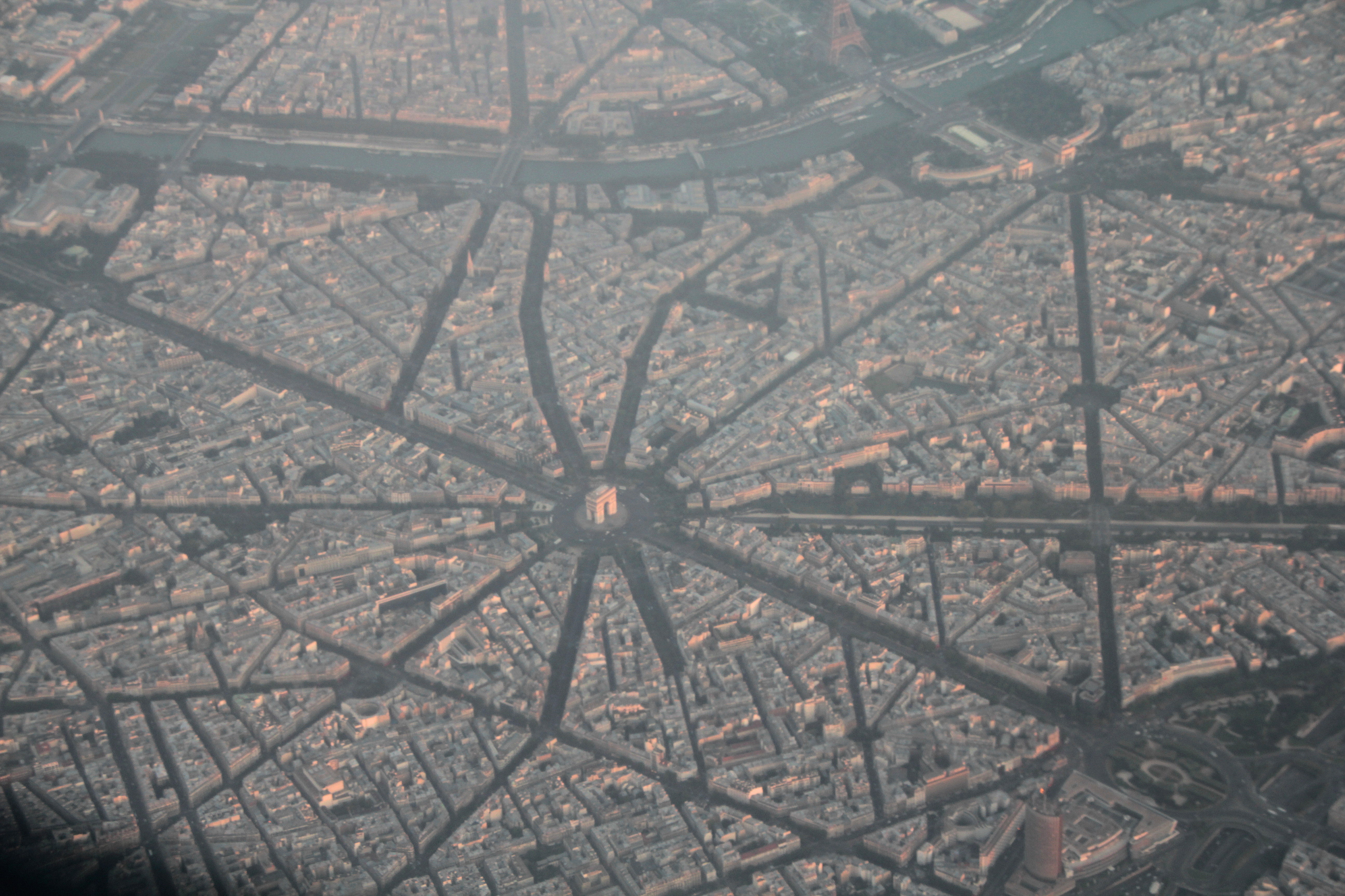 Aerial photograph of the Place Étoile in Paris